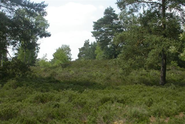 Witley Common.